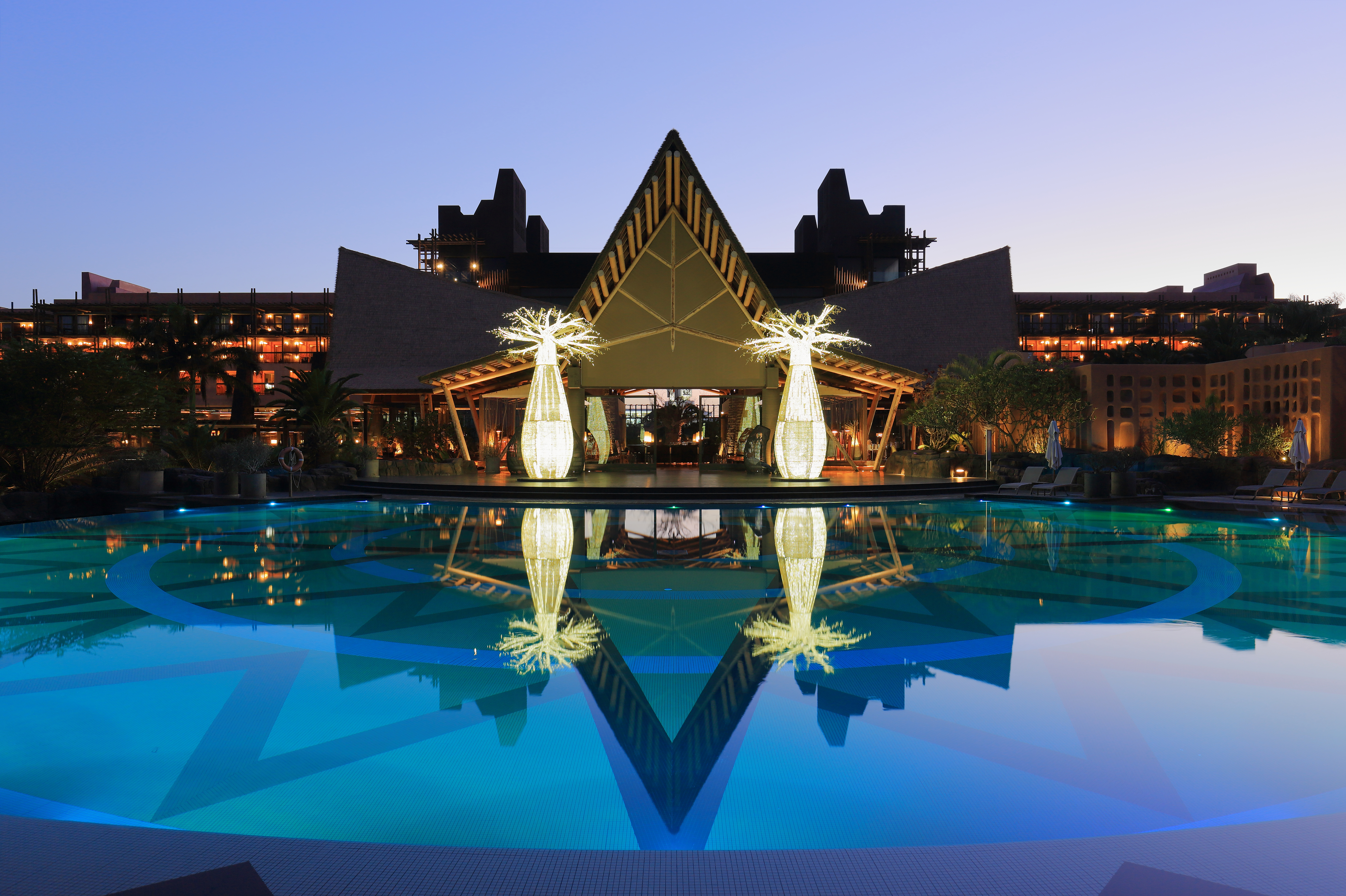 Lopesan Baobab Resort, Maspalomas, Gran Canaria